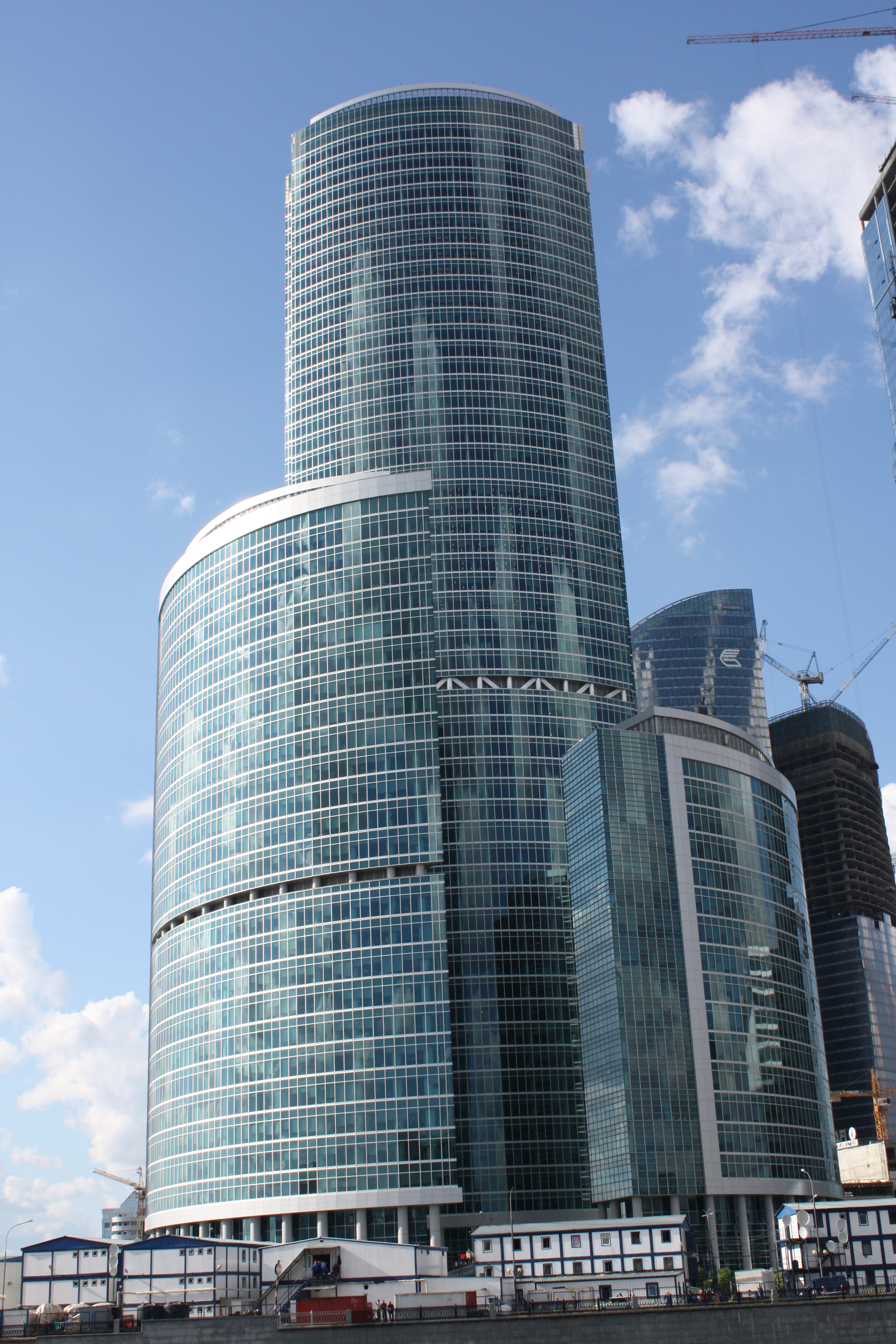 The Nabereshnaya Tower in 21 July 2008.